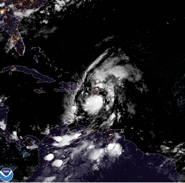 Tropical Storm Isaias south of Puerto Rico on July 30th, 2020.